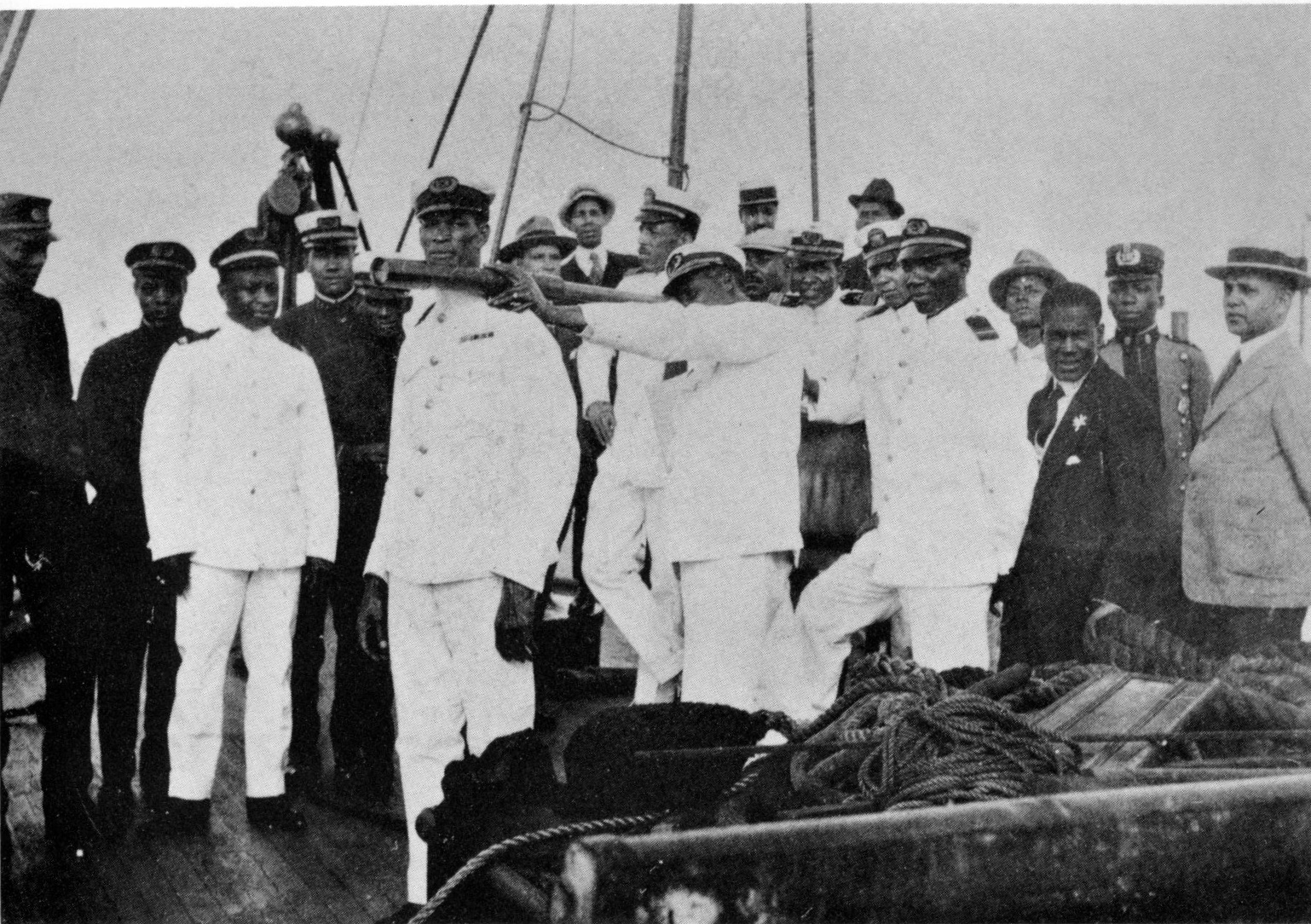 Crew of the S.S. Yarmouth, c1920